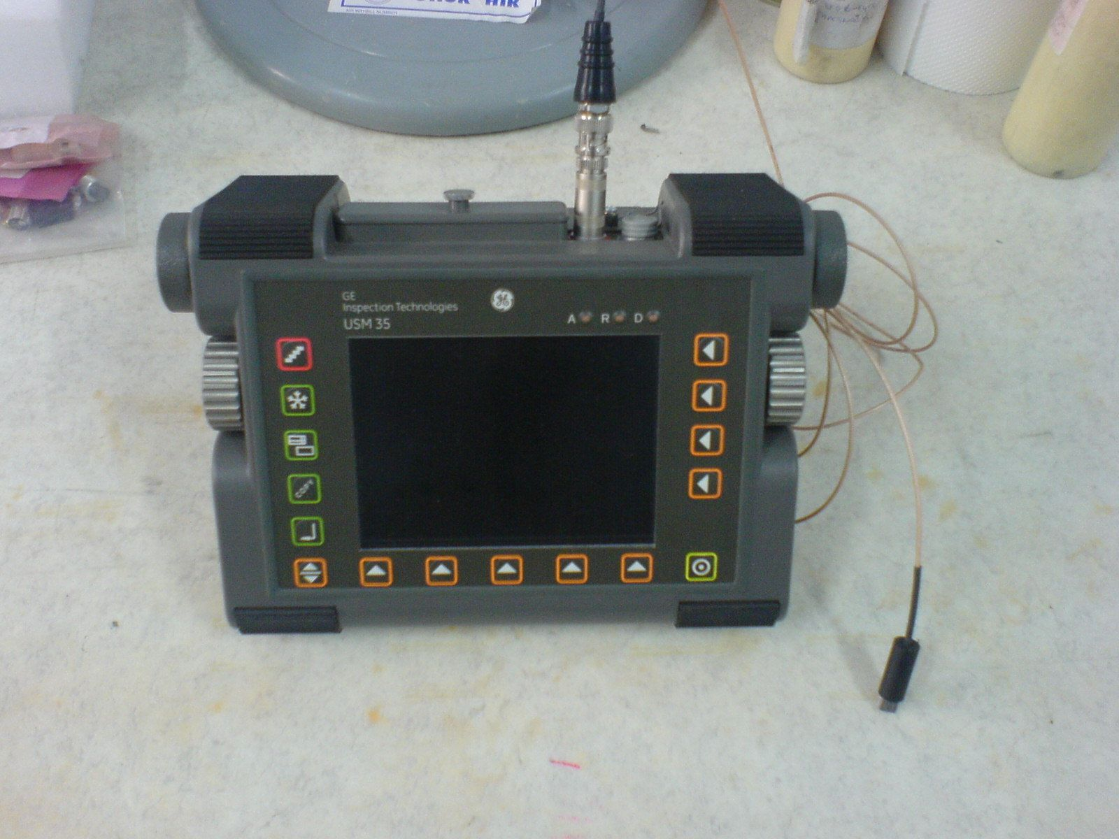 GE USM 35X DAC LEMO type NDT Test Tool